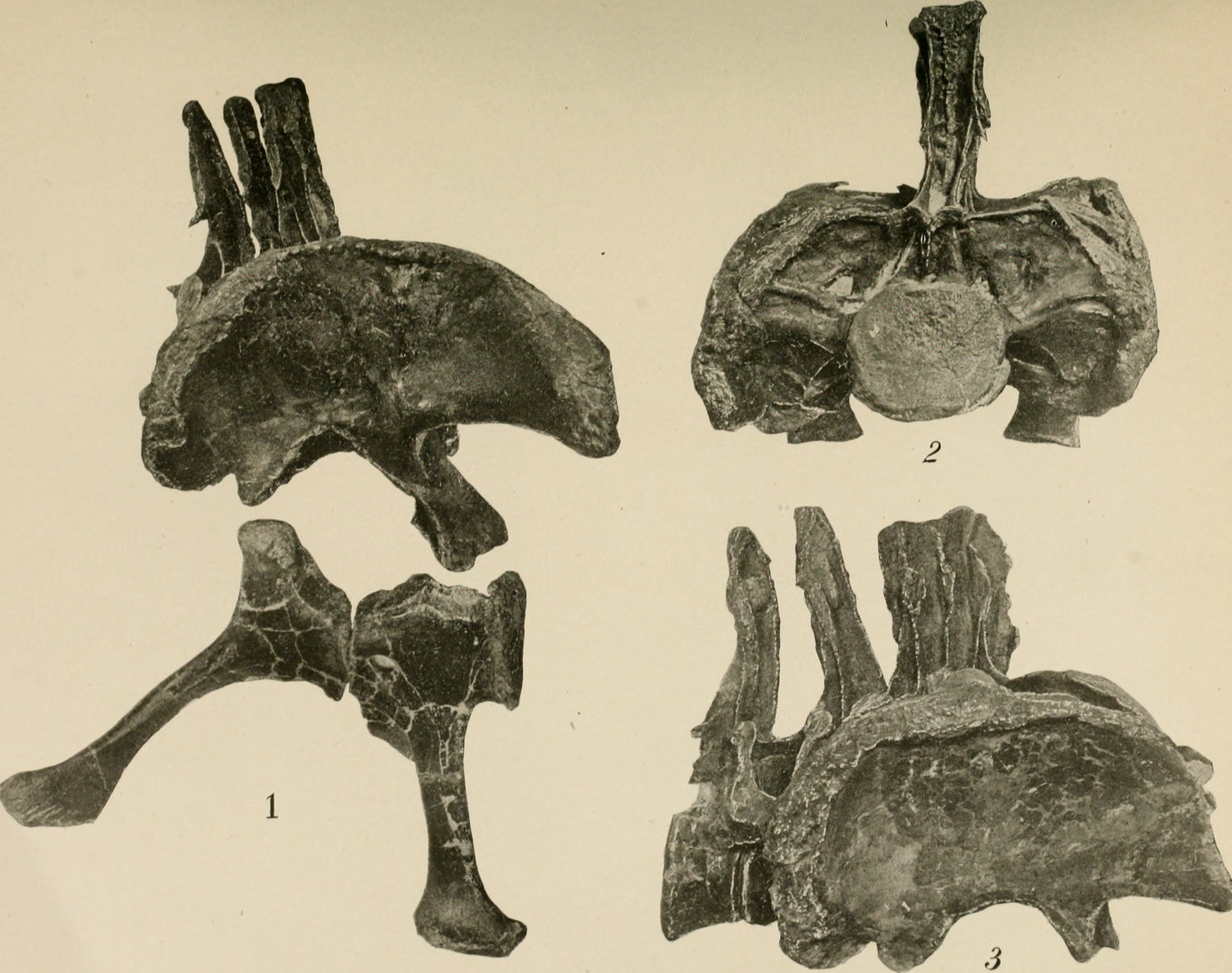 Title: Diplodocus (Marsh) : its osteology, taxonomy, and probable habits, with a restoration of the skeleton Year: 1901 (1900s) Authors: Hatcher, J. B. (John Bell), 1861-1904; Carnegie Museum Subjects: Diplodocus Publisher: Pittsburgh Published under authority of the Board of Trustees of the Carnegie Museum Text Appearing Before Image: I Text Appearing After Image: '